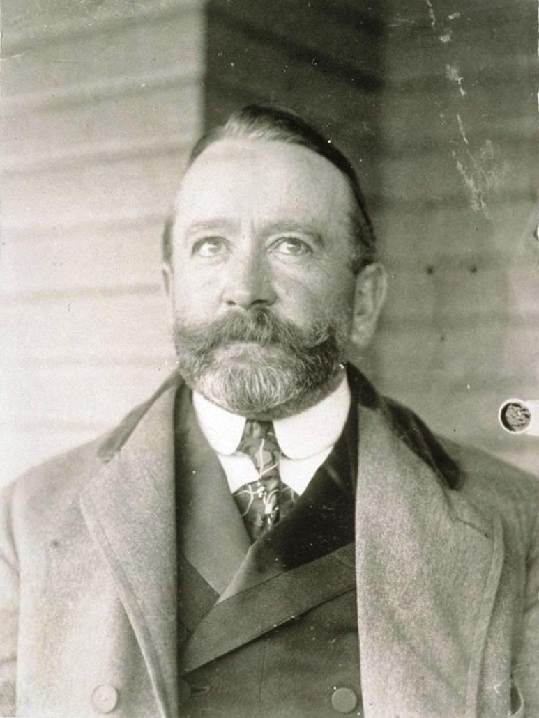 James D. Phelan, Mayor of San Francisco, California, and later U.S. Senator for California